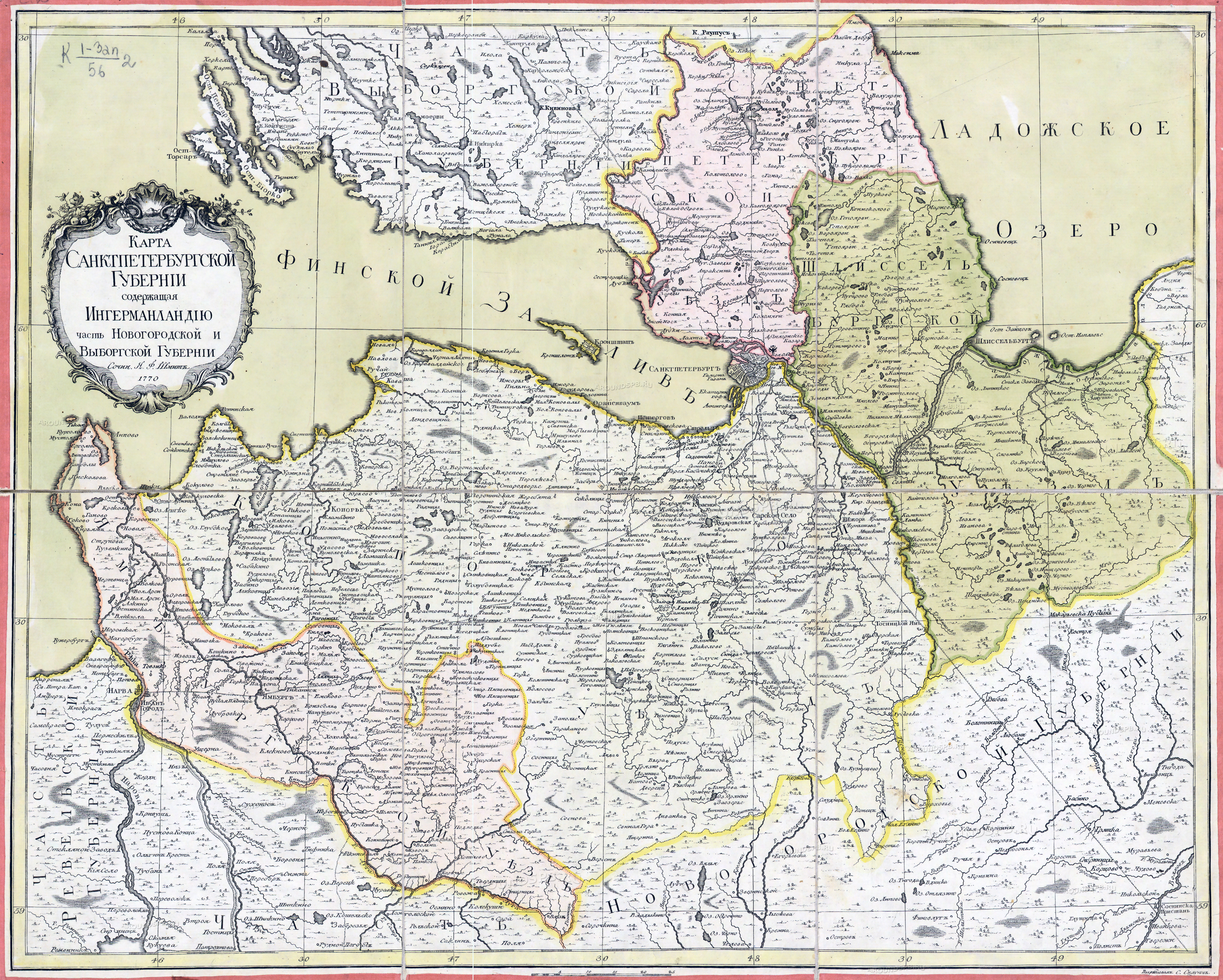 Map of Saint Peterburg Governorate 1770